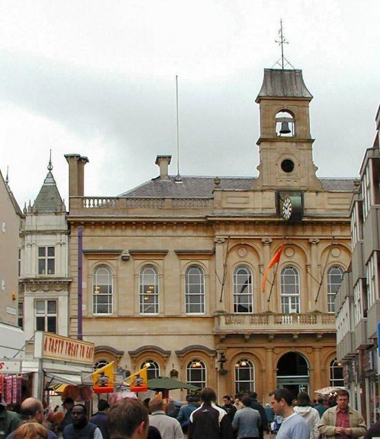 Loughborough Town Hall. A busy scene on market day.